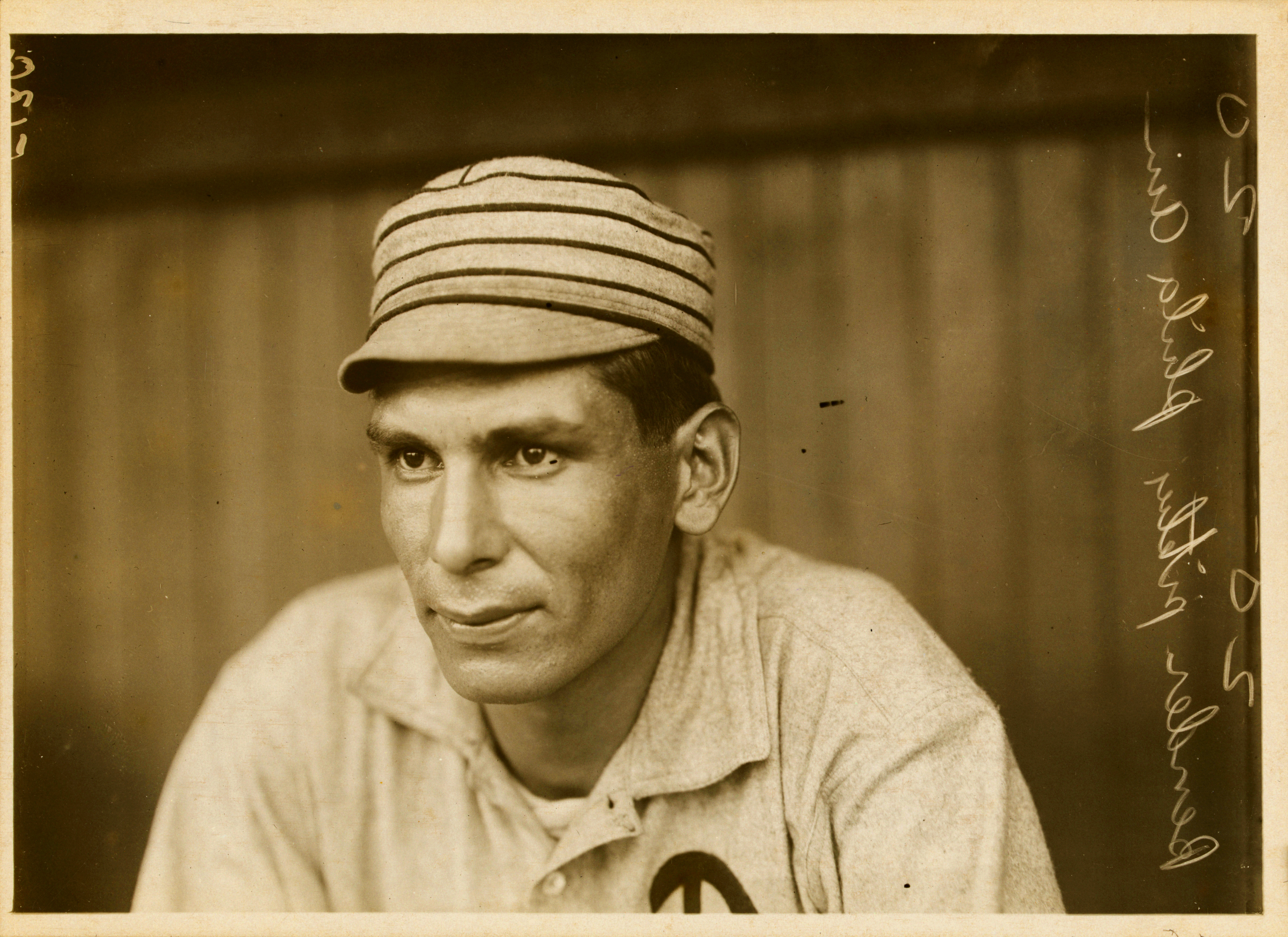 Chief (Charles Albert) Bender, pitcher and infielder/outfielder for the Philadelphia Athletics, head-and-shoulders portrait, facing slightly left.